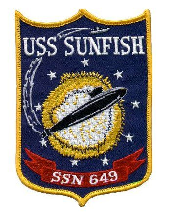 This is a scanned image of the USS Sunfish's (SSN-649) unit patch.